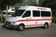 AHBVPA-ABTM 01